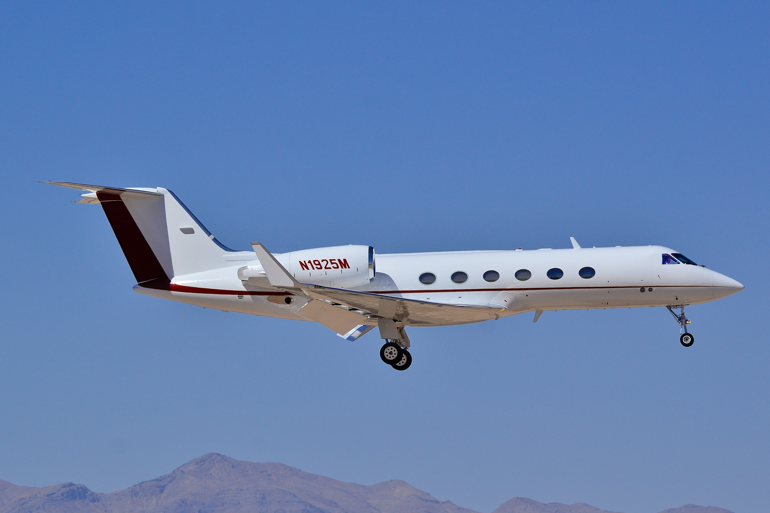 North Las Vegas Airport (IATA: VGT, ICAO: KVGT, FAA LID: VGT) TDelCoro July 3, 2012